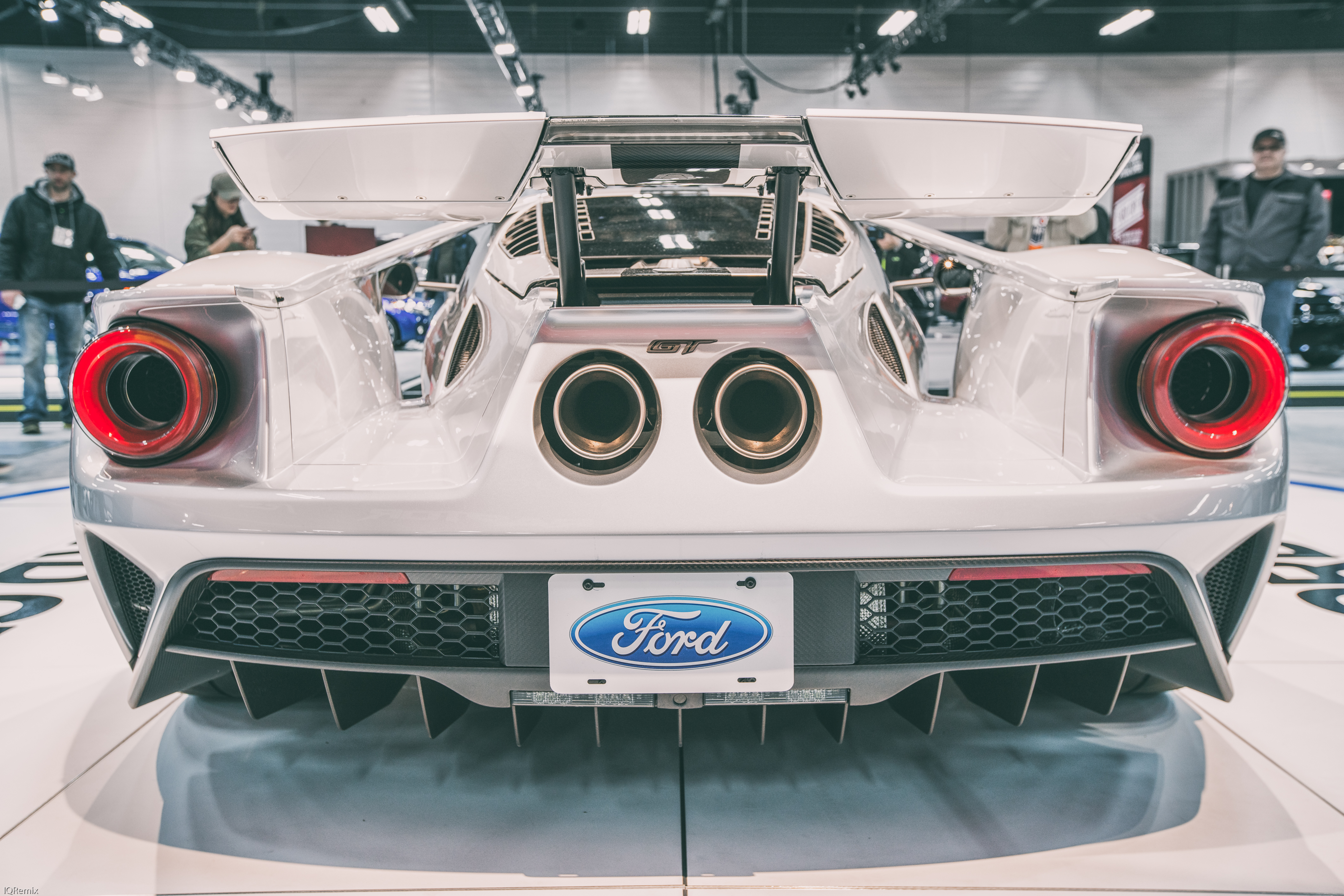 Edmonton Motor Show 2017